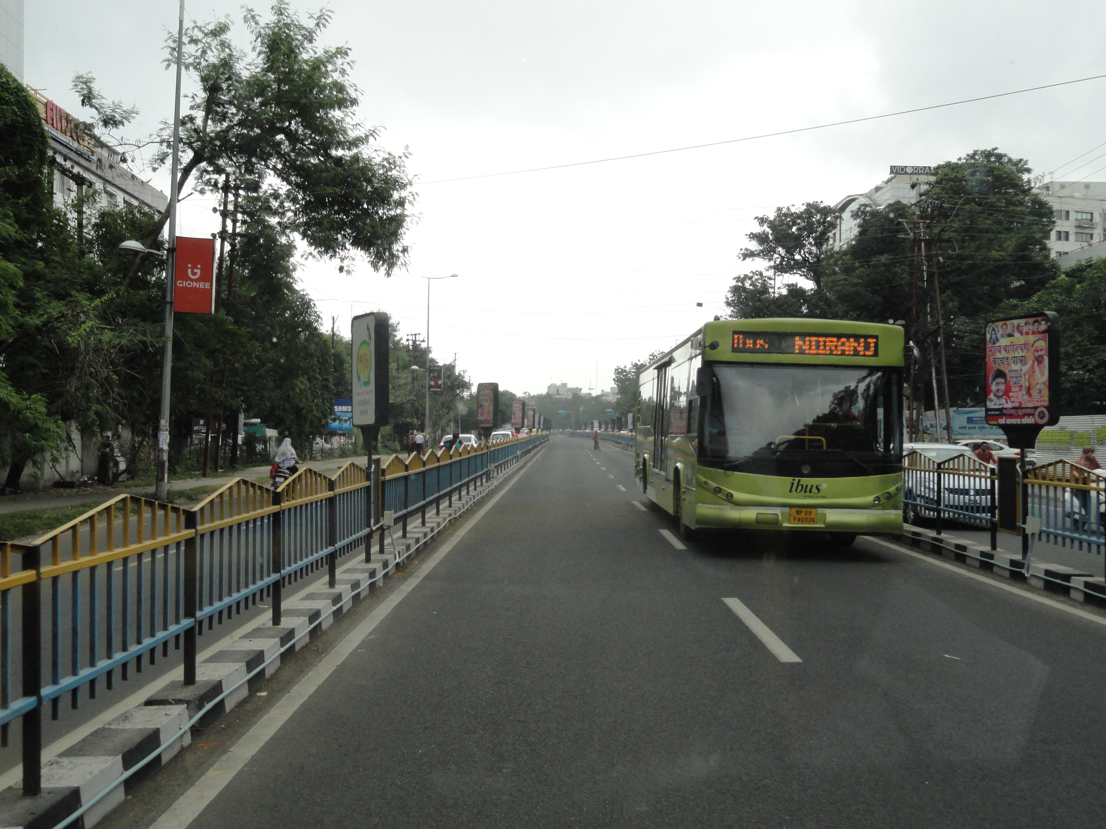 Example of busway fencing in Indore, India